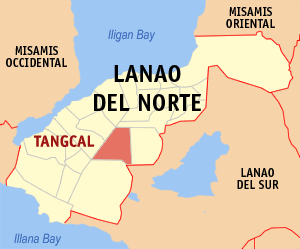 Map of the Lanao del Norte showing the location of Tangcal